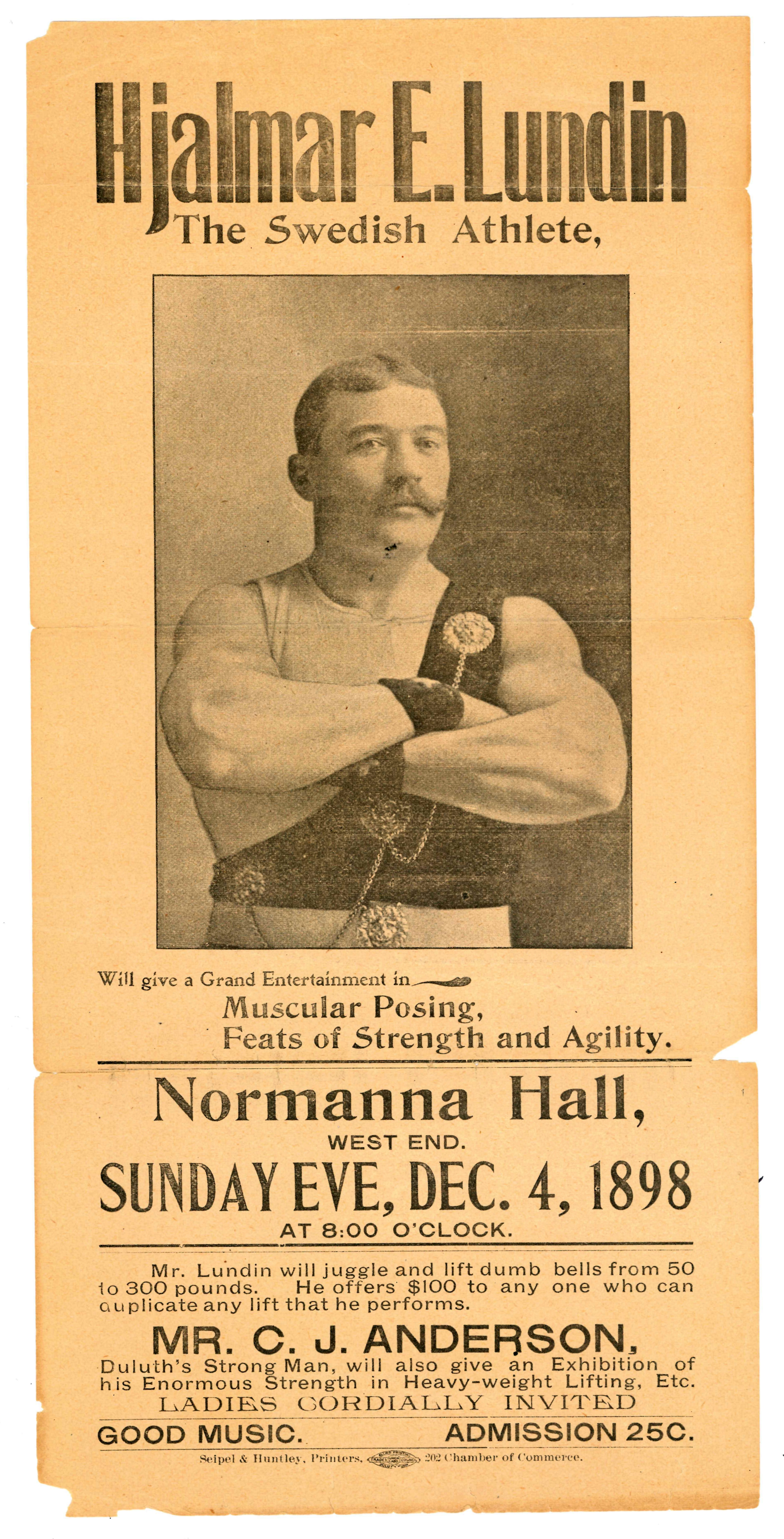 Broadside of Hjalmar Lundin dated December 4, 1898. This Broadside promotes Mr. Lundin's athletic prowess, strengths and agility. Hjalmar Lundin offers anyone $100.00 if they can duplicate any lifting performed that night. Mr. C.J. Anderson of Duluth will perform following Mr. Lundin. The referenced "Normanna Hall" maybe (not proven) to have been located in the Western section of Duluth, Minnesota. This is scan of the original as printed by Seipel & Huntley Printing of Duluth, Minnesota.